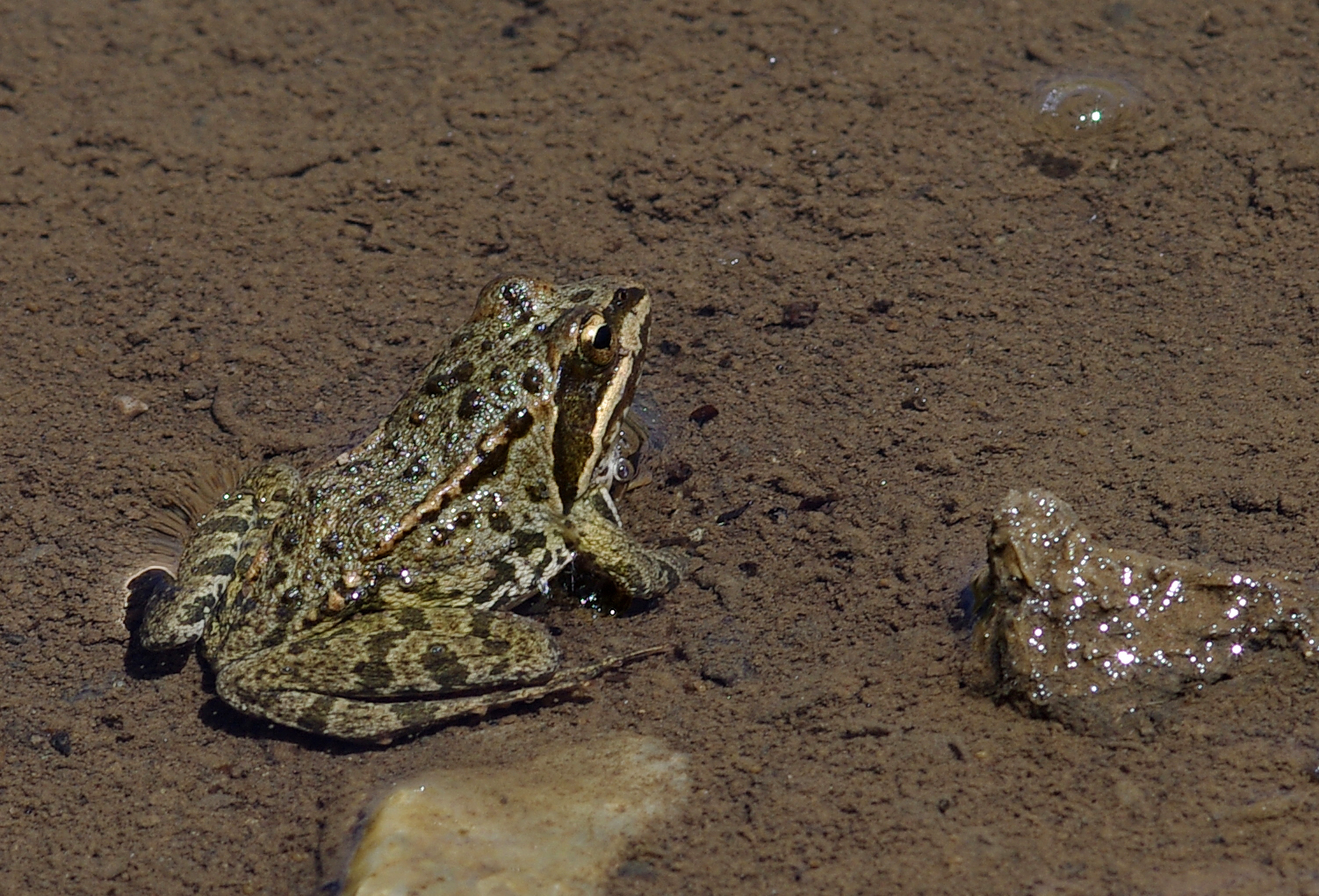 A Taurus frog, an endemic species to the lakes Karagöl and Çiniligöl on Bolkar Mountains in Çamlıyayla, Mersin - Turkey.